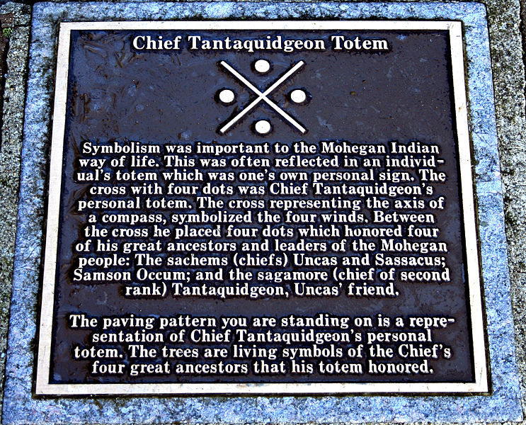 মহেগান চিফের ব্যক্তিগত টোট্যাম স্মৃতিসন্মরণ করে একটি ফলক নরউইচ ,কানেকটিকাটের